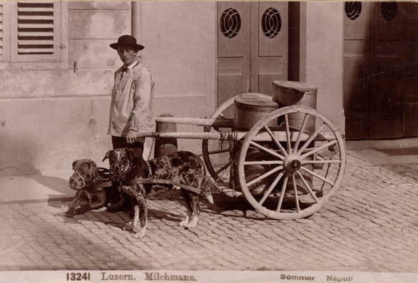 Giorgio Sommer (1834-1914) - "Lucerne - Milkman". Catalogue # 13241.